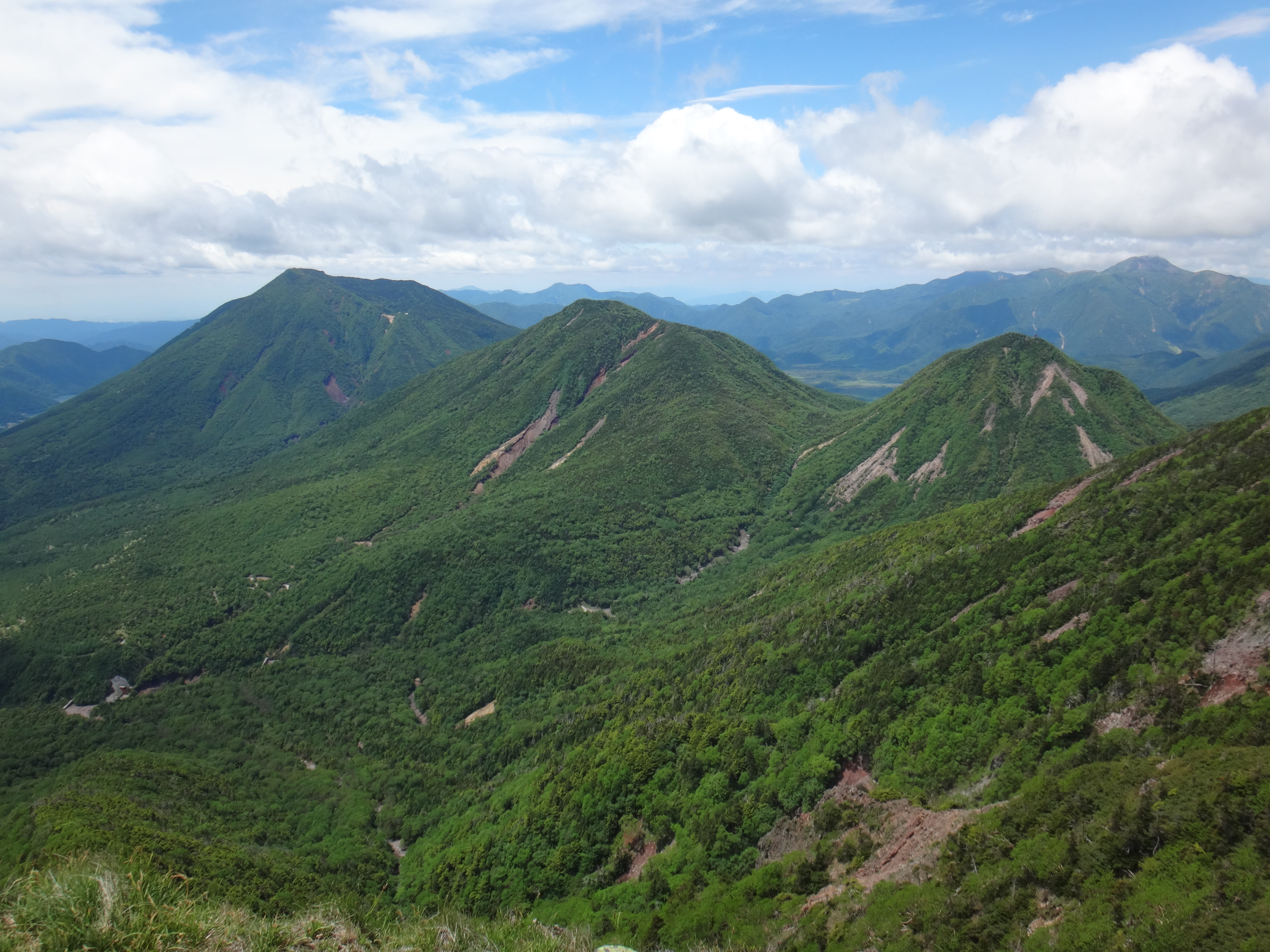 The SW view from Mount Mount Nyoho. Mount Nantai (left), Mount Ōmanako (center), Mount Komanako (right), Mount Nikko-Shirane (back right).